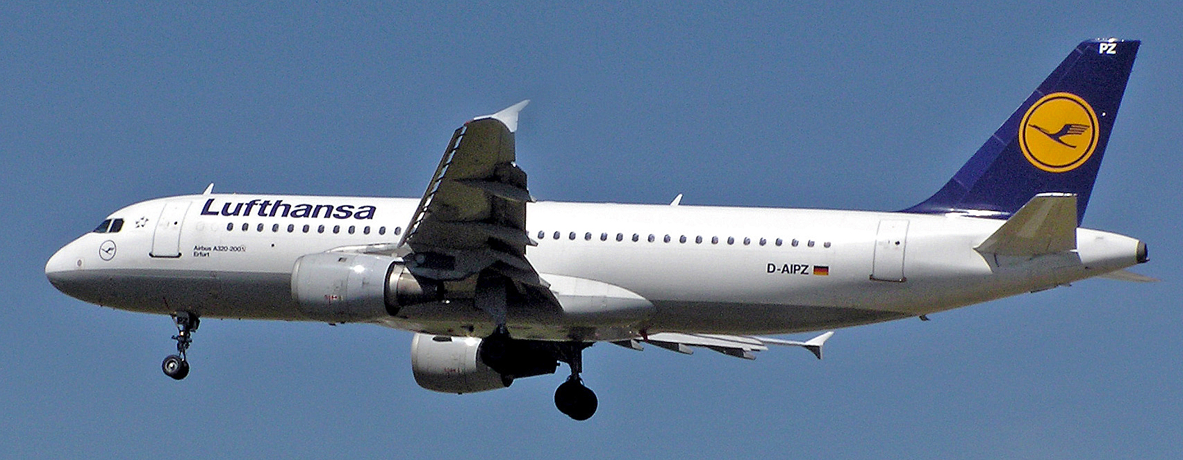 Lufthansa Airbus A320-200 (D-AIPZ, named "Erfurt") landing at London Heathrow Airport, England.